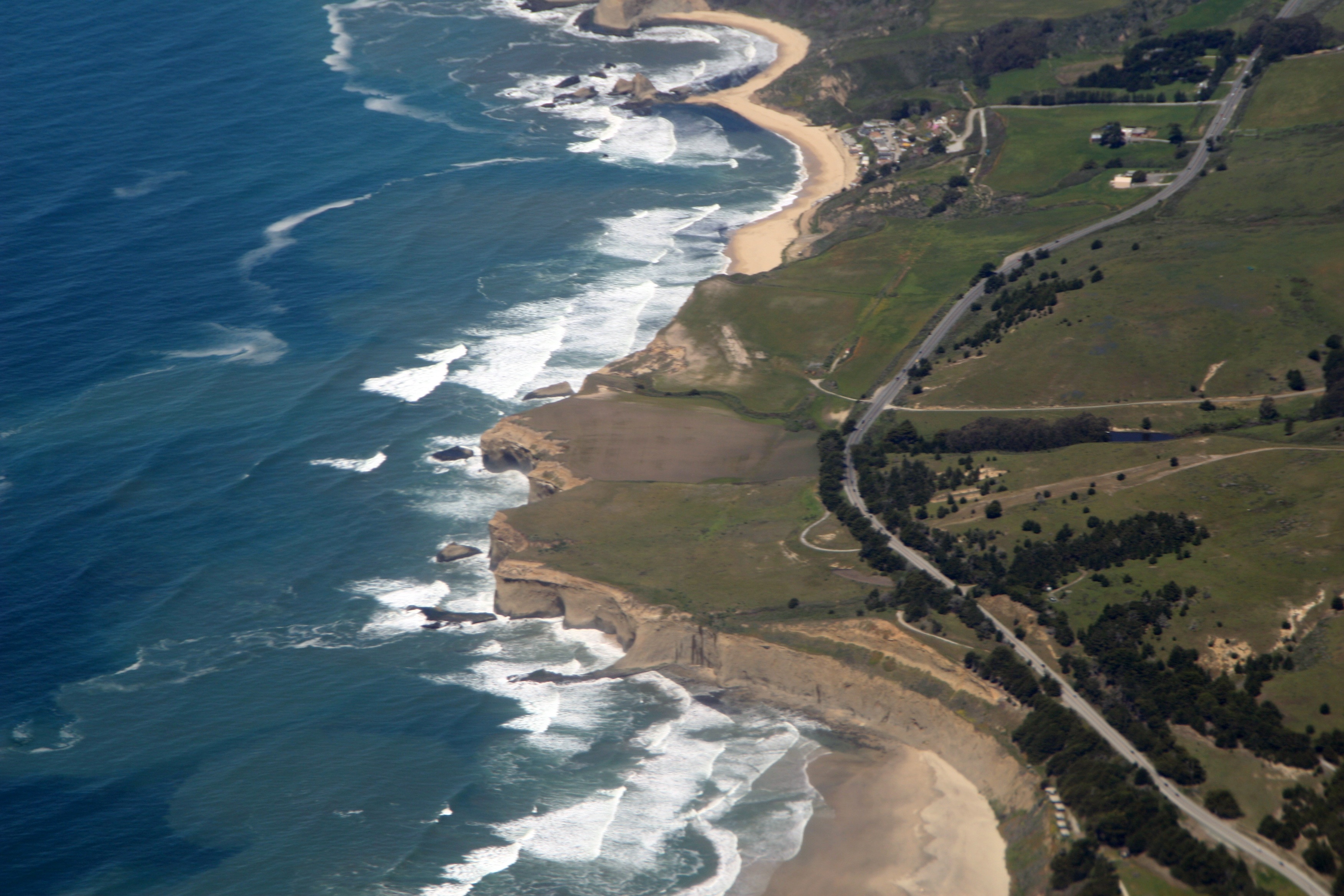 Ocean Shore rail grade at Tunitas Beach. The cliffs here are 100' high. This is also where the farmer Alexander Gordon had a famous (or infamous) "chute" for sliding farm goods from the top of the cliffs to ships anchored in the rolling surf below. Gordon's Chute was built in 1872 and lasted until 1885, when a storm blew it away. Here is a large detailed drawing of the chute. Note also, between the highway and the cliffs, the faint trace of a former railroad bed. This was the Ocean Shore Railroad.